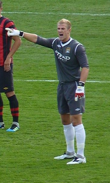 Joe Hart against the Vancouver Whitecaps on 18 July 2011.